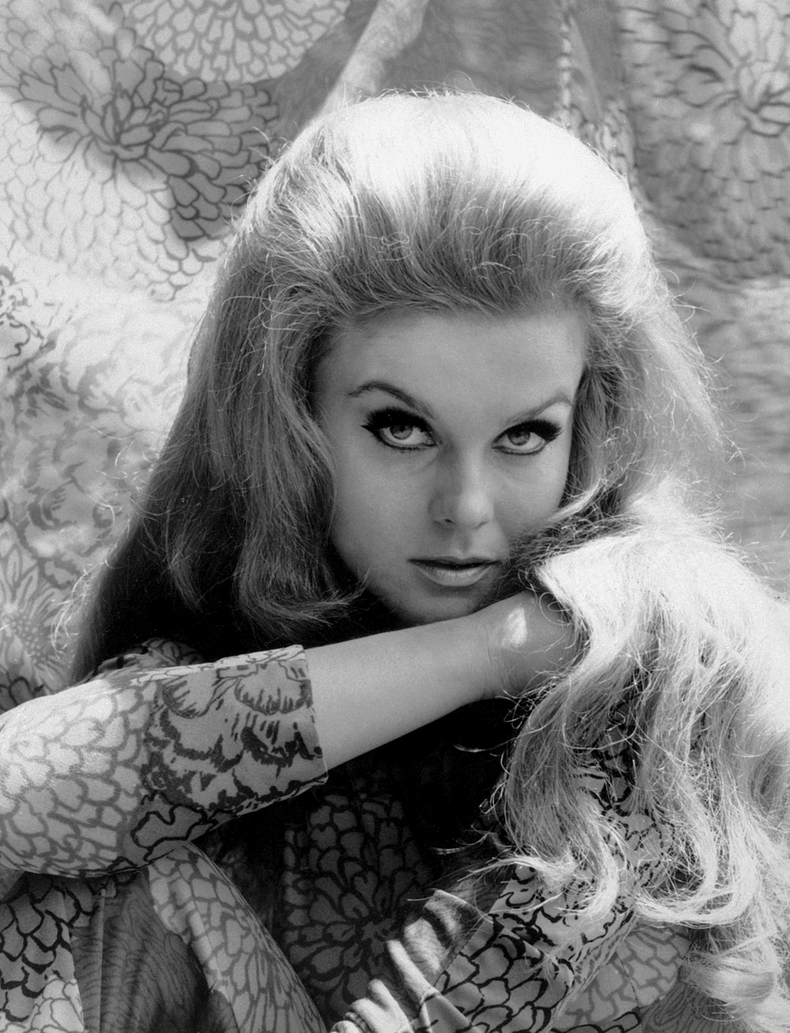 Photo of Ann-Margret from a 1968 television special.